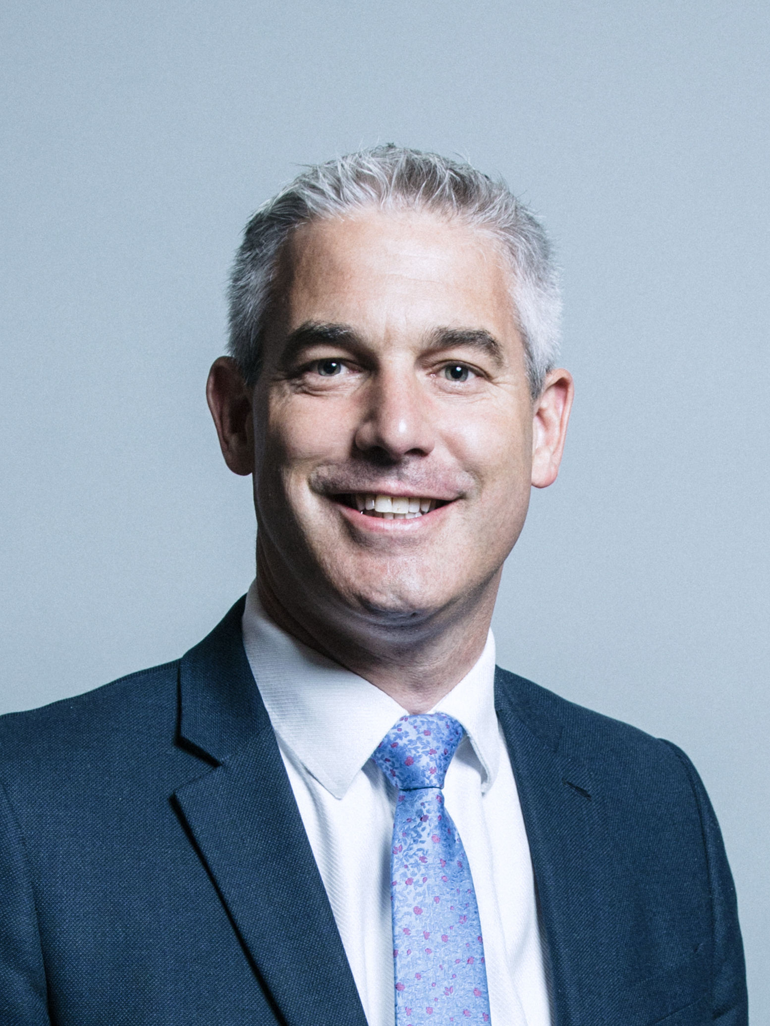 Official portrait of Stephen Barclay